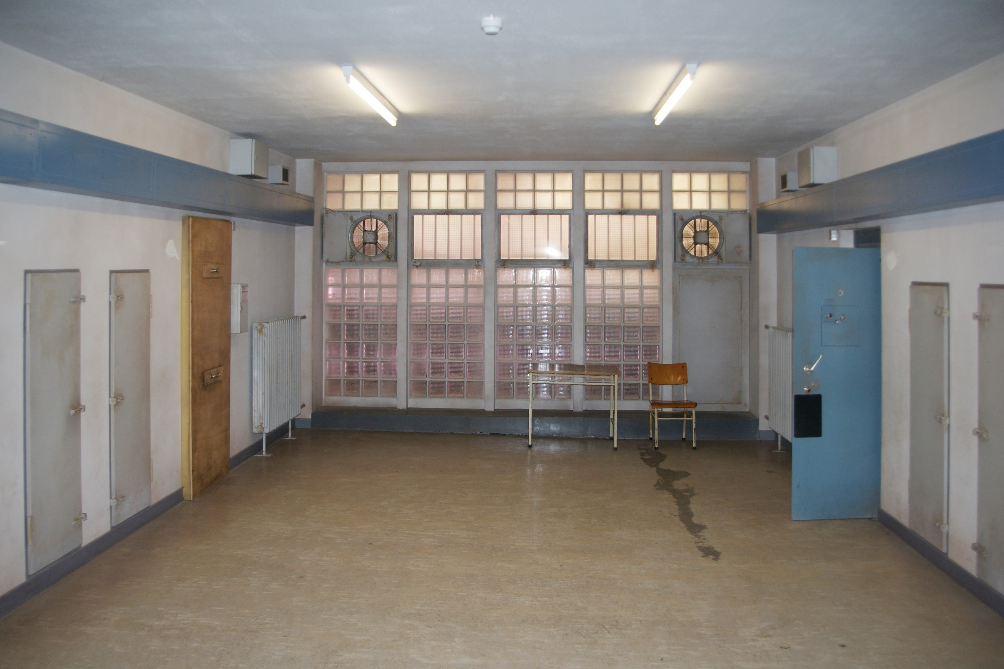 Film set of Der Baader Meinhof Komplex at the Bavaria Film Studios